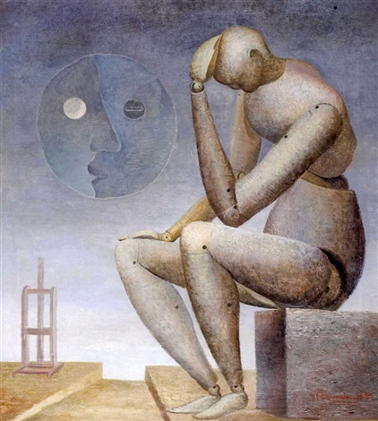 Emilio Rosenblueth: El pensador, 1939. Medium: oil on canvas. Size: 72,5 x 62,5 cm.